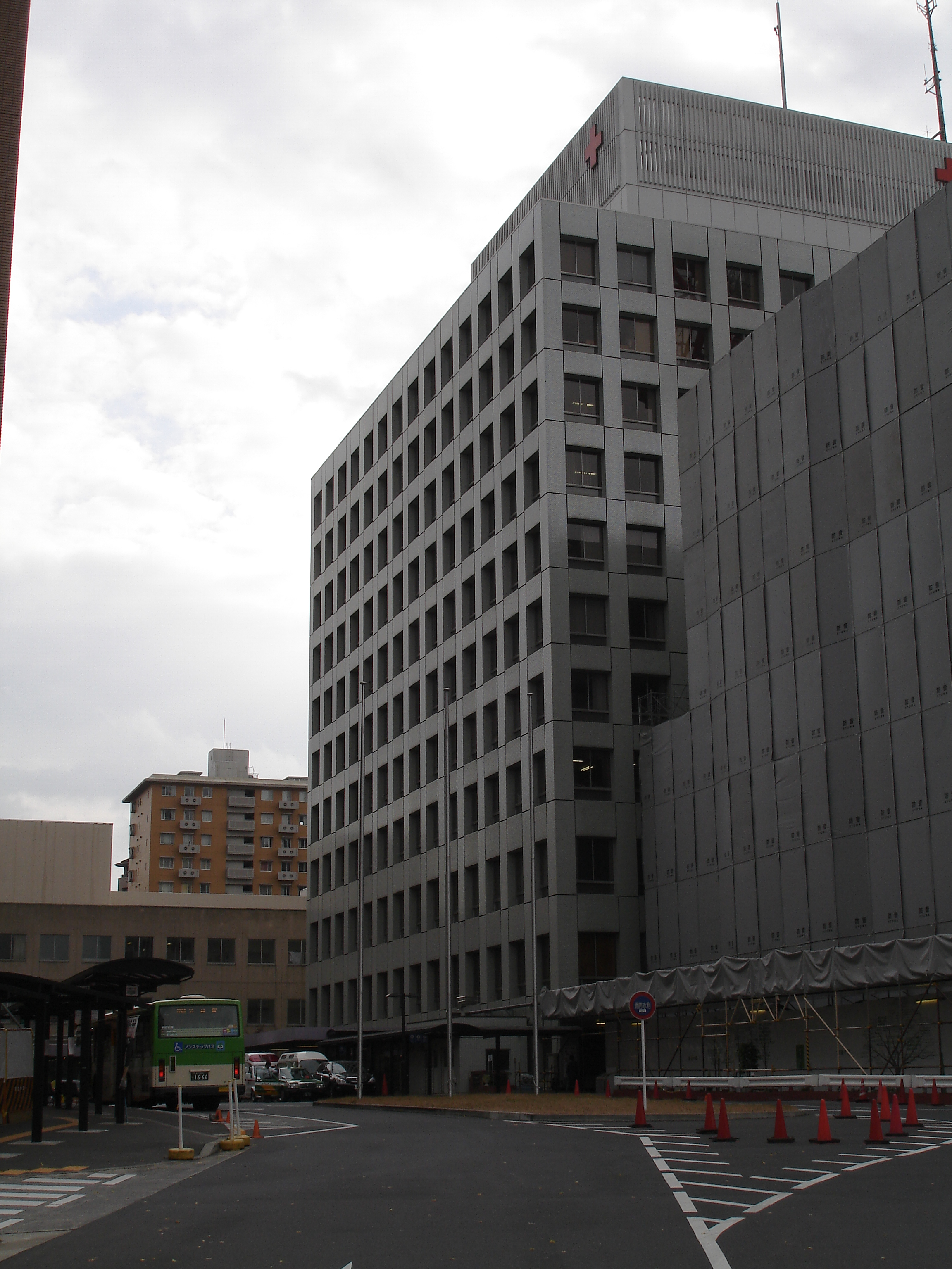 Japanese RedCross Medicai Center at HIROO, Shibuya-ku ward, Tokyo